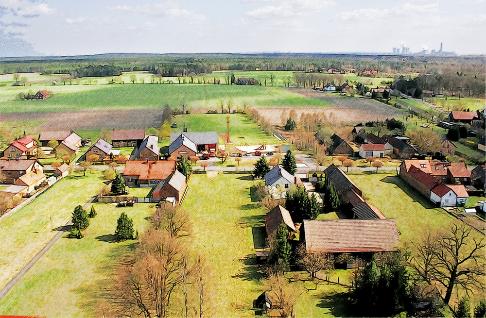 Middle of Mulkwitz, the Dorfstraße with fire department, sports- and play-area (aerial photograph edited for an anonymous view)